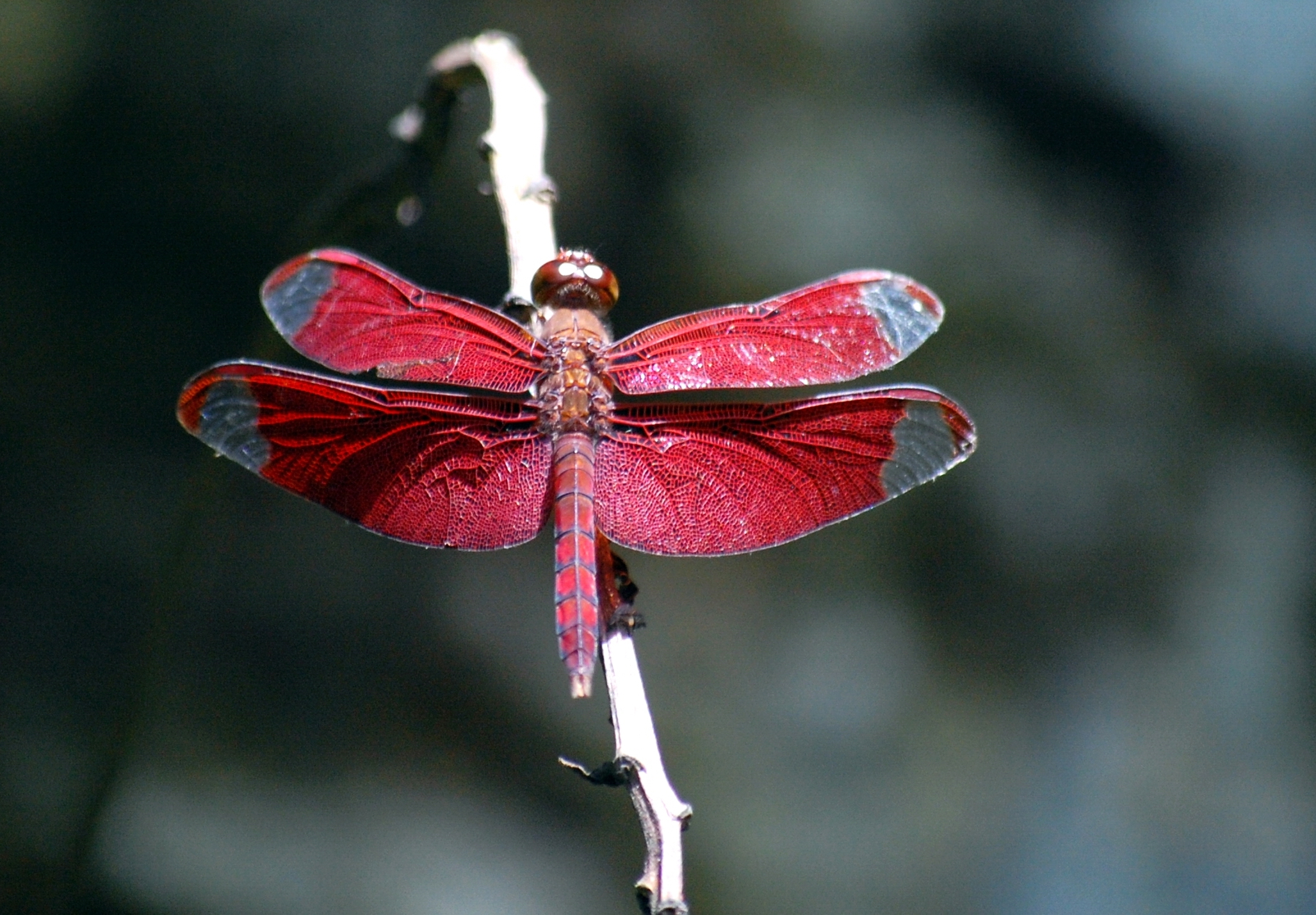 Dragonfly -chalakudy, thrissur, kerala, India